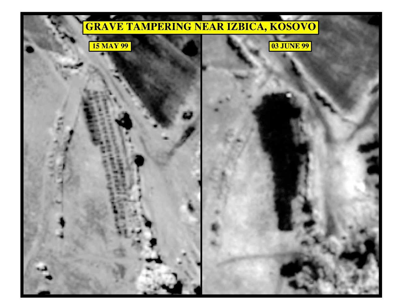 Satellite imagery of grave tampering near Izbica, during Kosovo War in 1999.